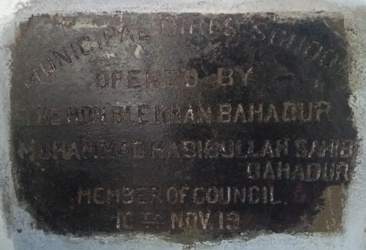 Inscription dated 10 November 1919 about the building opening found in the Arignar Anna Government Higher Secondary School, Kumbakonam, Tamil Nadu, India